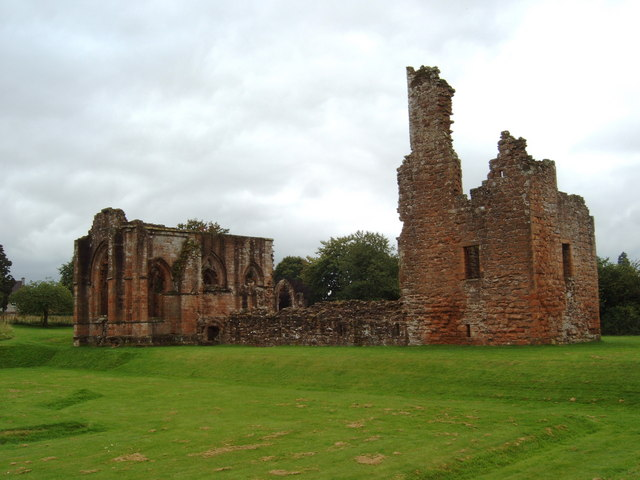 Lincluden Collegiate Church ruins